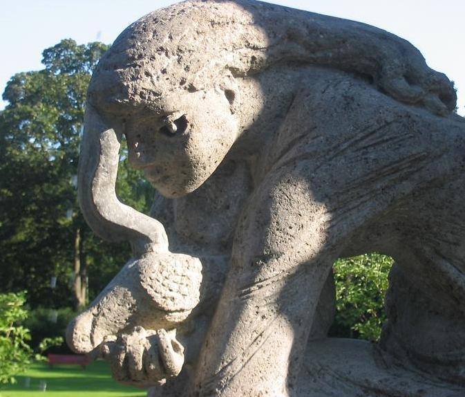 Limestone-sculpture „Aschenputtel“ (cinderella) in the Schulenburgpark in Berlin-Neukölln, created on the occasion of the restoration of the „Märchenbrunnen“ (german for: tale fountain) in 1970 by the sculptress Katharina Szelinski-Singer.